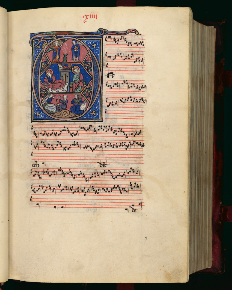 folio 8 of MS F of the the Magnus Liber Organi, a 13th century compilation of musical compositions from Notre-Dame Cathedral, Paris